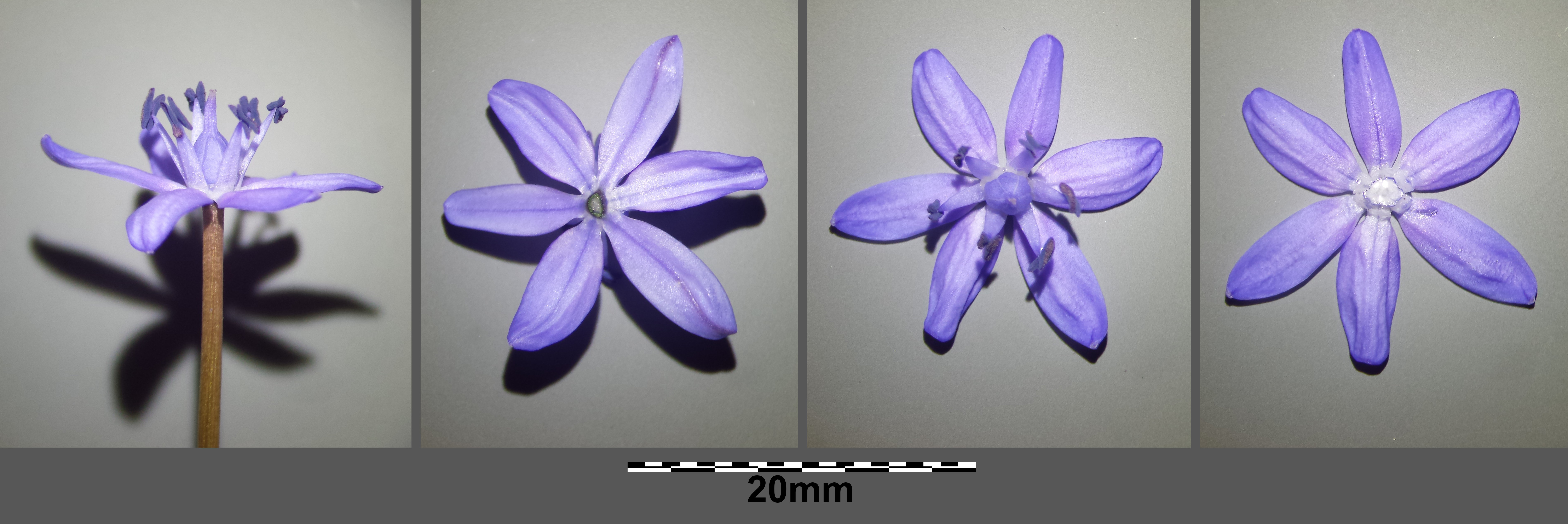 Flower; side, bottom and top view, on the right ovary and stamina removed Taxonym: Scilla drunensis ss Fischer et al. EfÖLS 2008 ISBN 978-3-85474-187-9 Location: Haberg in between Oberrußbach und Wischathal, district Hollabrunn, Lower Austria - ca. 400 m ü. A. Habitat: dedicious forest